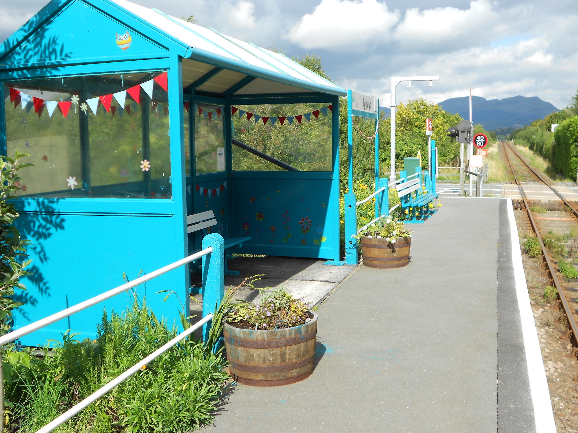 Tygwyn railway station in Wales, showing the results of "station adoption" by the local community.